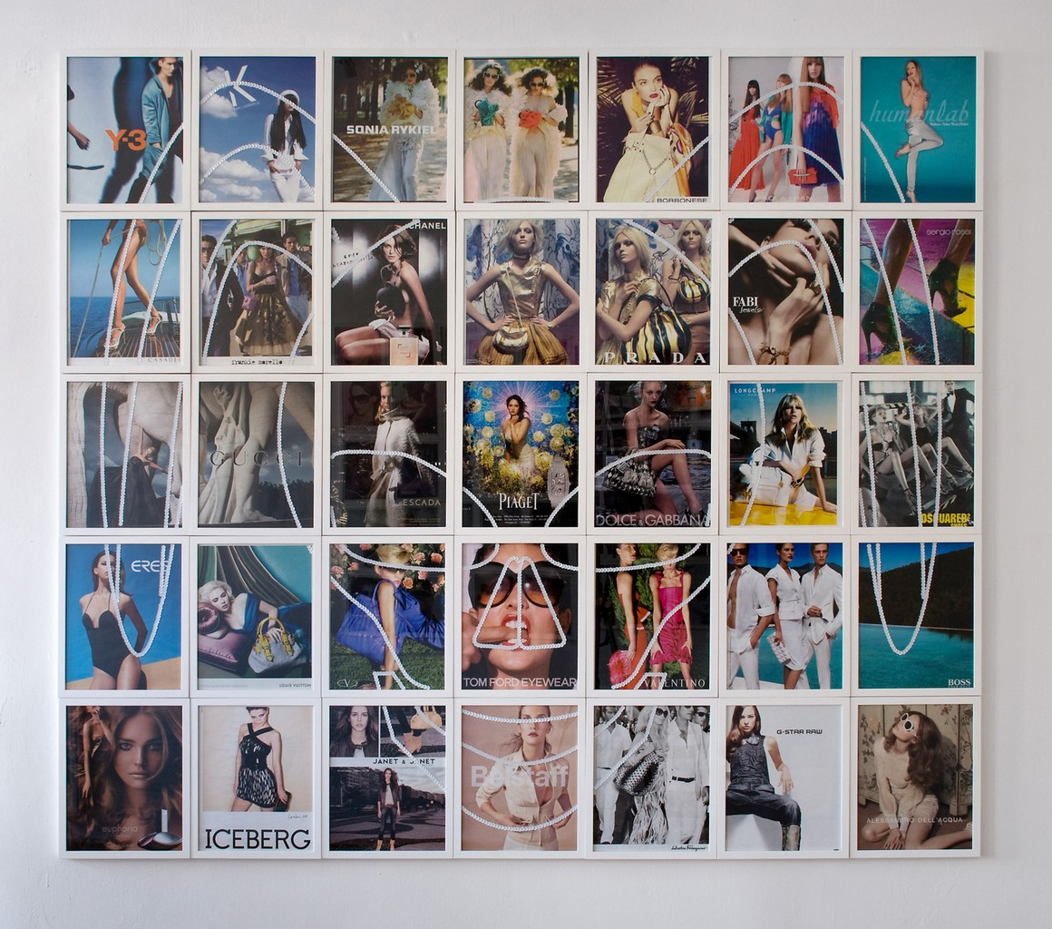 Kinga Dunikowska, Death Rabbit, 2007